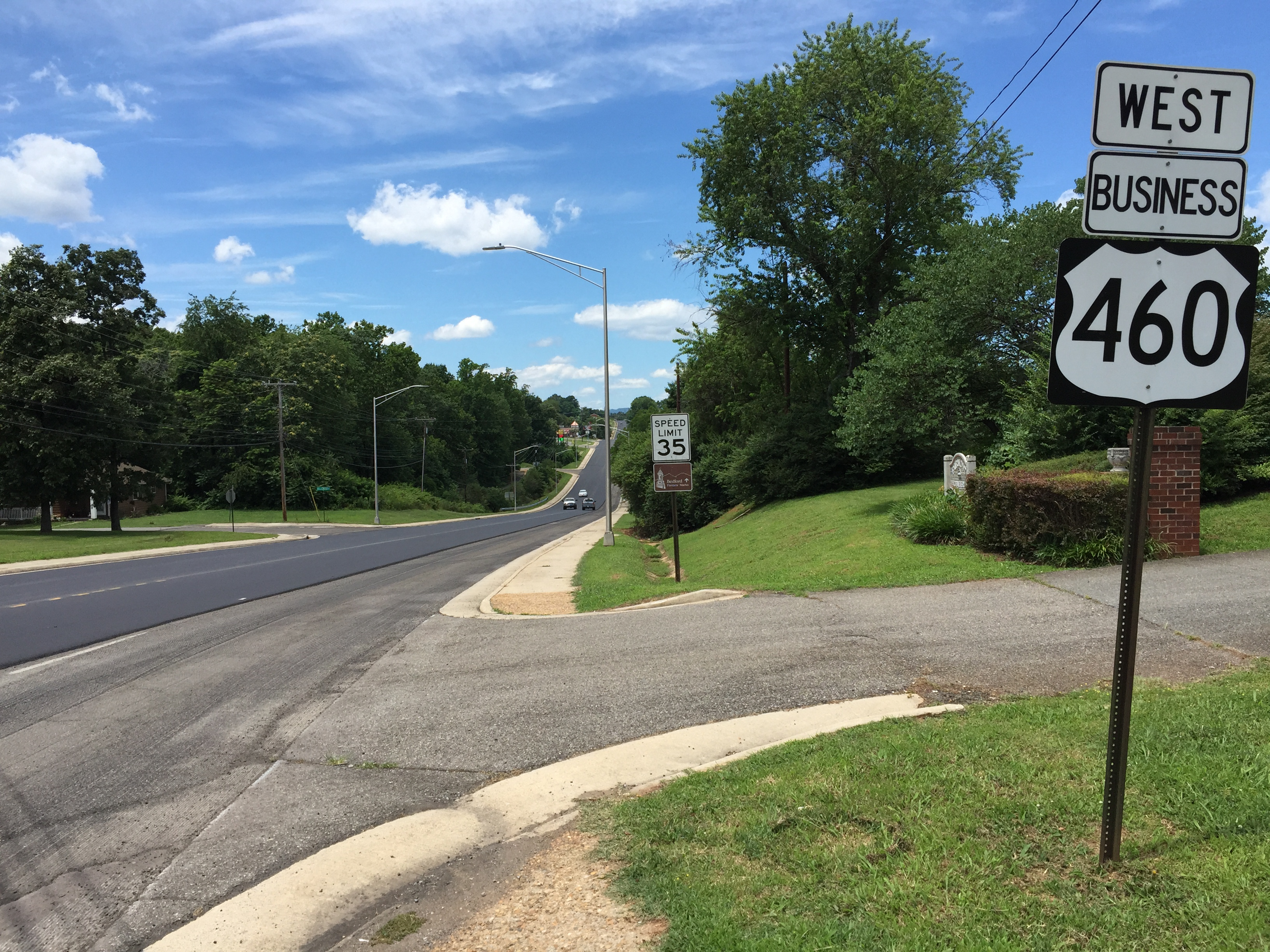 View west along U.S. Route 460 Business (Main Street) at Virginia State Route 122 (Independence Boulevard) in Bedford, Bedford County, Virginia